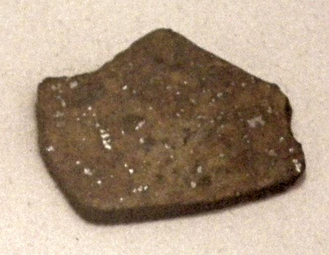 L'Aigle metorite